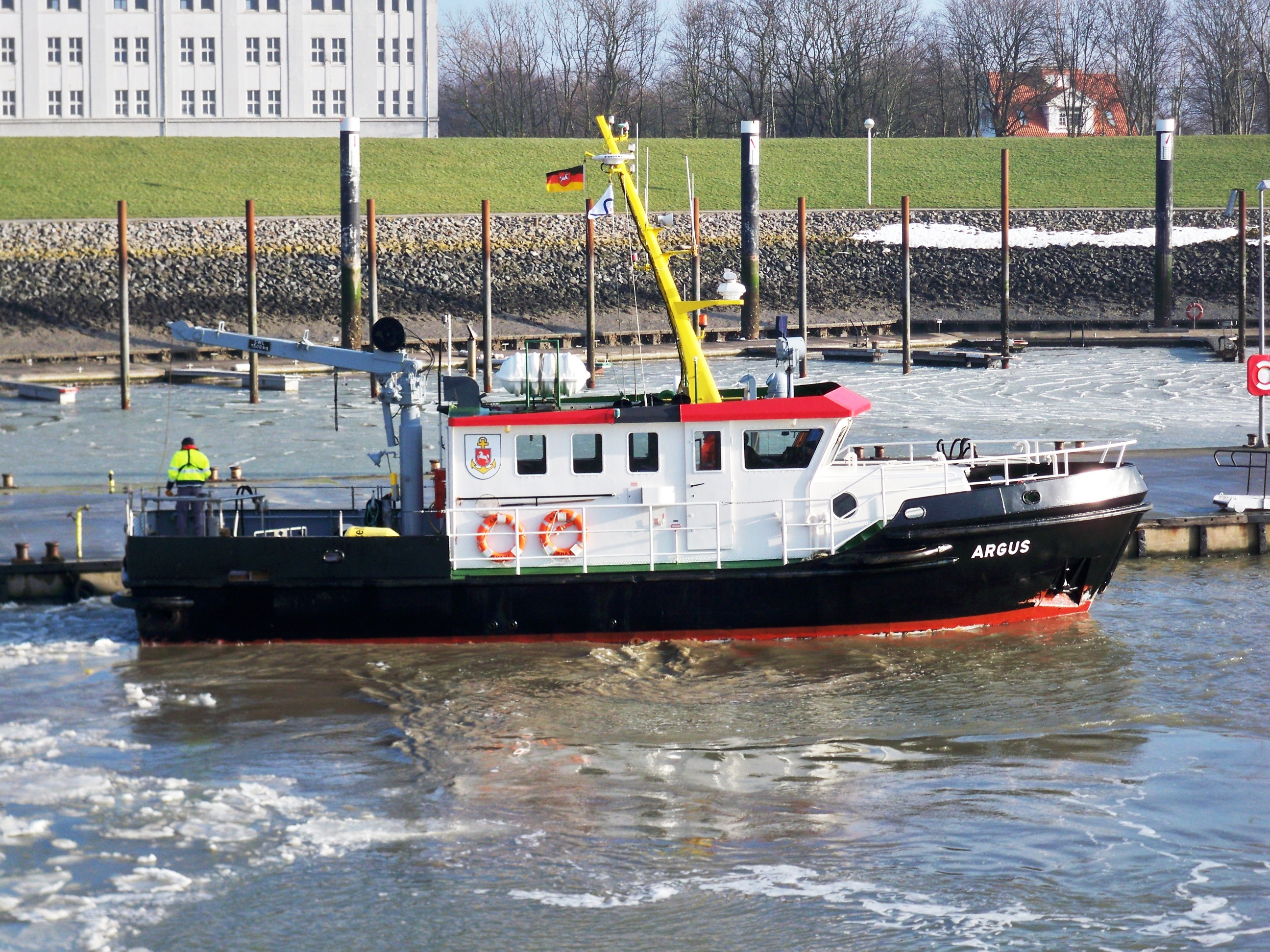 German survey vessel Argus approaching the Nassaubrücke in Wilhelmshaven